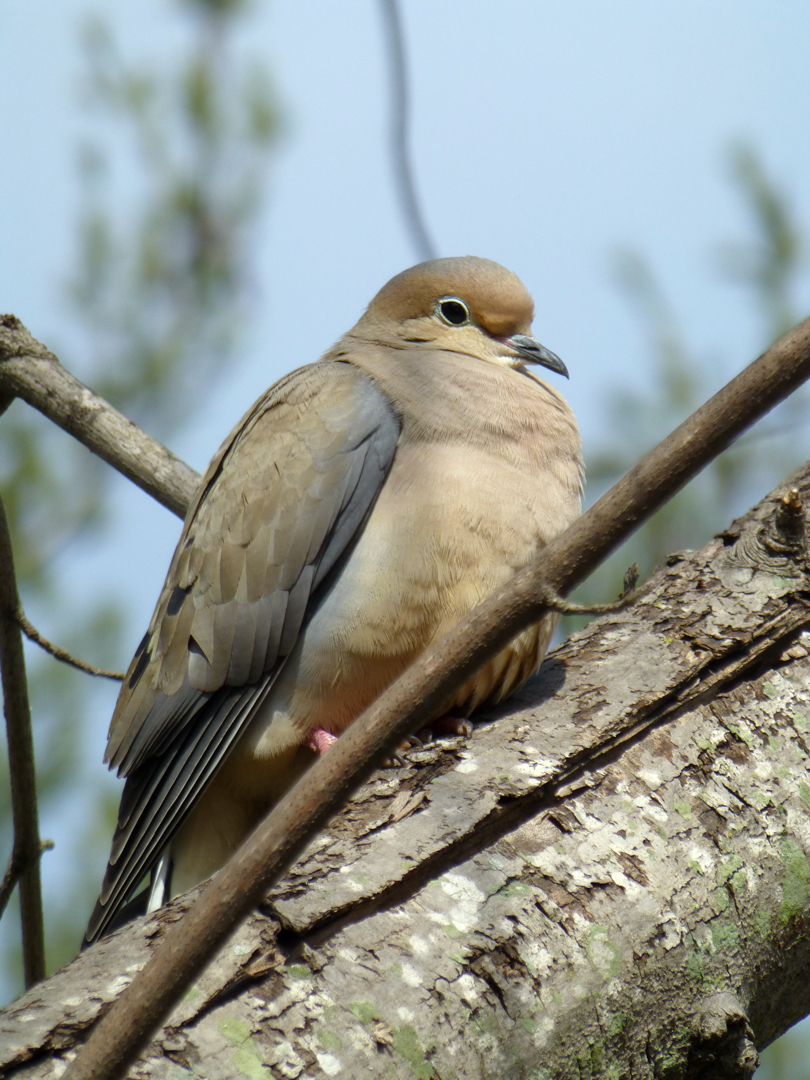 An adult Mourning Dove Zenaida macroura in the spring (Easter day). It let me close to take the pic. A minor holiday miracle.